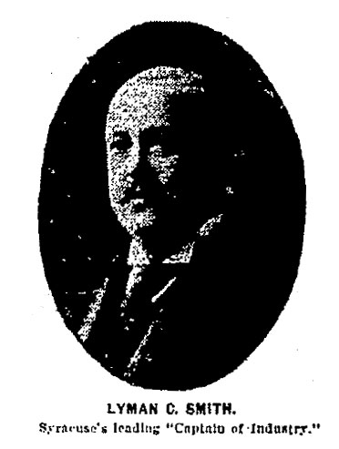 Lyman C. Smith - an industry leader in Syracuse - One of the founders of Smith Premier Typewriter Co.